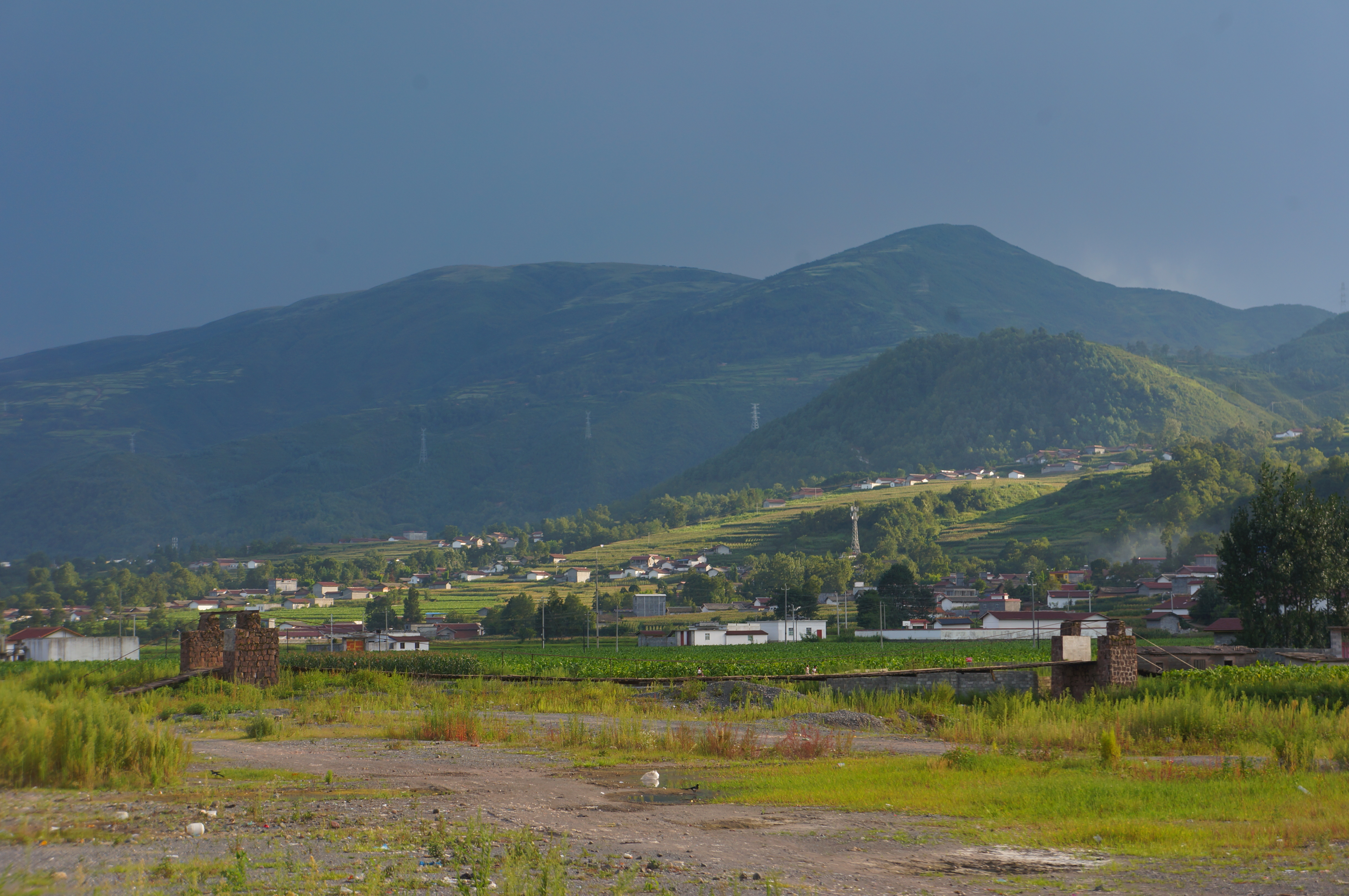 Taken on the bank of Niuri River, Puxiong side. It reports that there will be a thunderstorm that night.